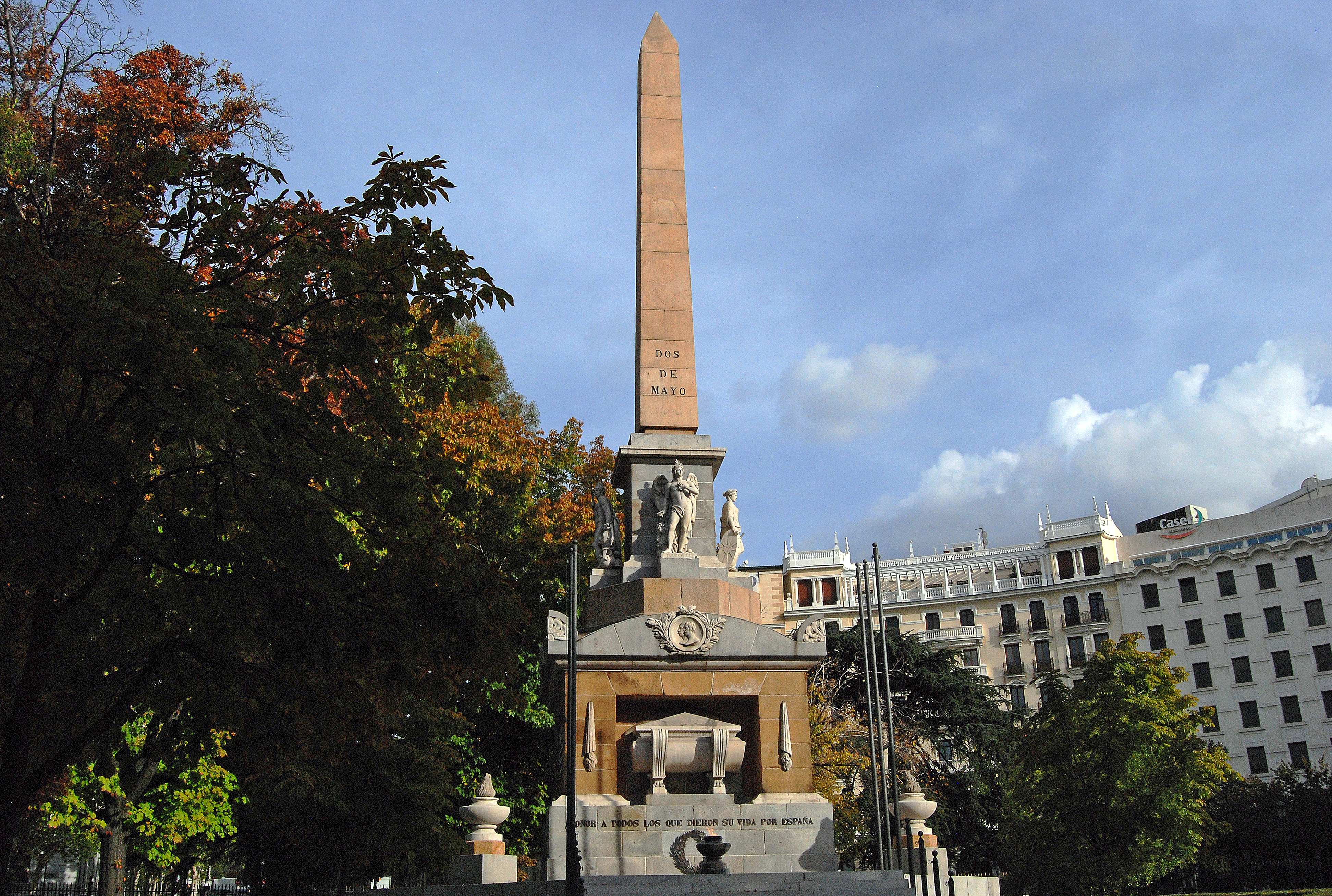 The Monumento a los Caídos por España (Monument to the Fallen for Spain), popularly known as the Obelisco (Obelisk) or the Monumento a los Héroes del Dos de Mayo (Monument to the Heroes of the Second of May); it was built on the place where General Joachim Murat ordered the execution of numerous Spaniards after the Dos de Mayo Uprising of 1808 / The Paseo del Prado is one of the main boulevards in Madrid. It runs north-south between the Plaza de Cibeles and Plaza del Emperador Carlos V, with the Plaza de Cánovas del Castillo (the location of the Fuente de Neptuno, approximately mid-way.